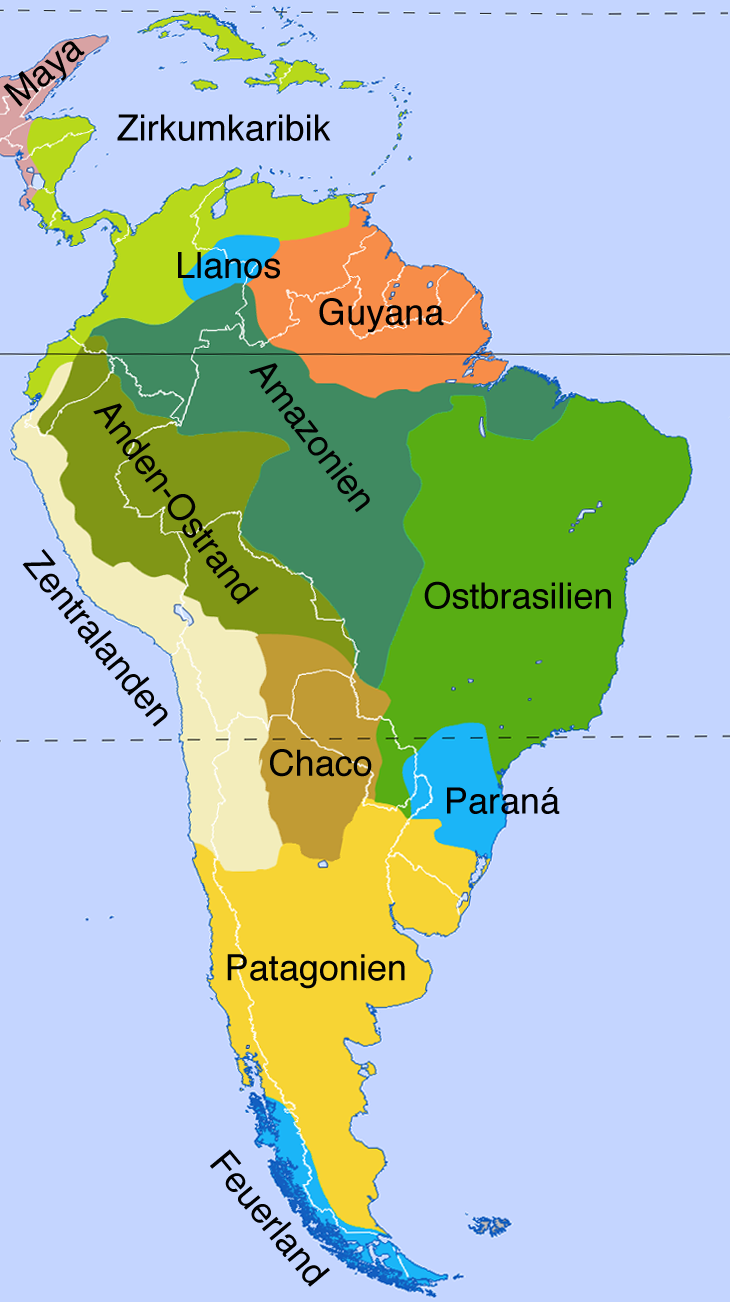 Indigenous culture areas of South America